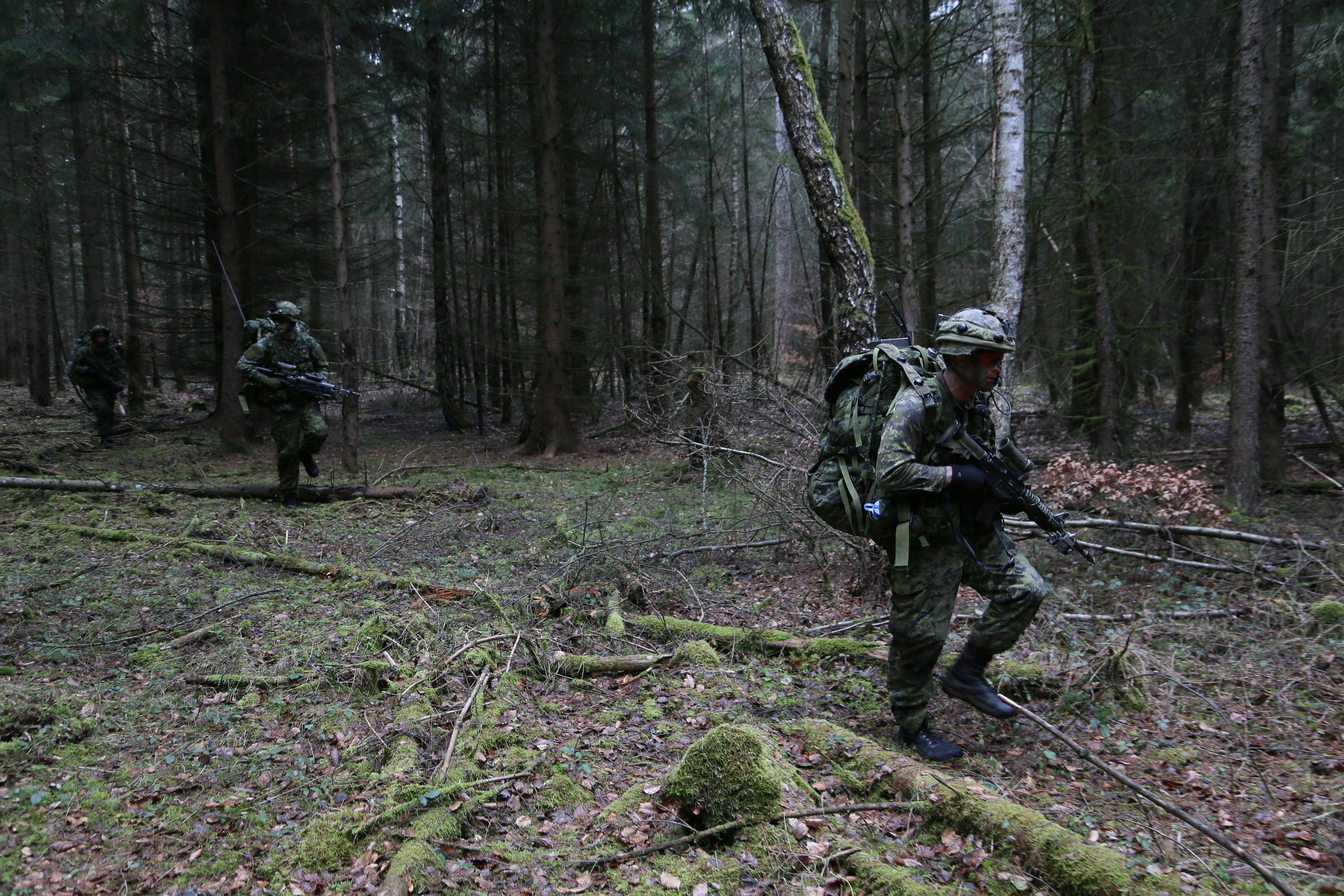 Canadian soldiers of 3rd Battalion, The Royal Canadian Regiment conduct scout operations during exercise Allied Spirit at the Joint Multinational Readiness Center in Hohenfels, Germany, Jan. 16, 2015. Exercise Allied Spirit includes more than 1,600 participants from Canada, Hungary, Netherlands, United Kingdom, and the U.S. Allied Spirit is exercising tactical interoperability and testing secure communications within alliance members. (U.S. Army photo by Spc. Tyler Kingsbury/Released)